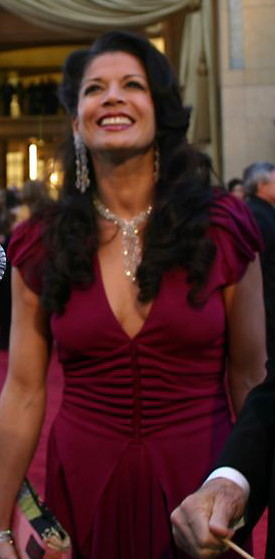 Dina Eastwood, wife of Clint Eastwood